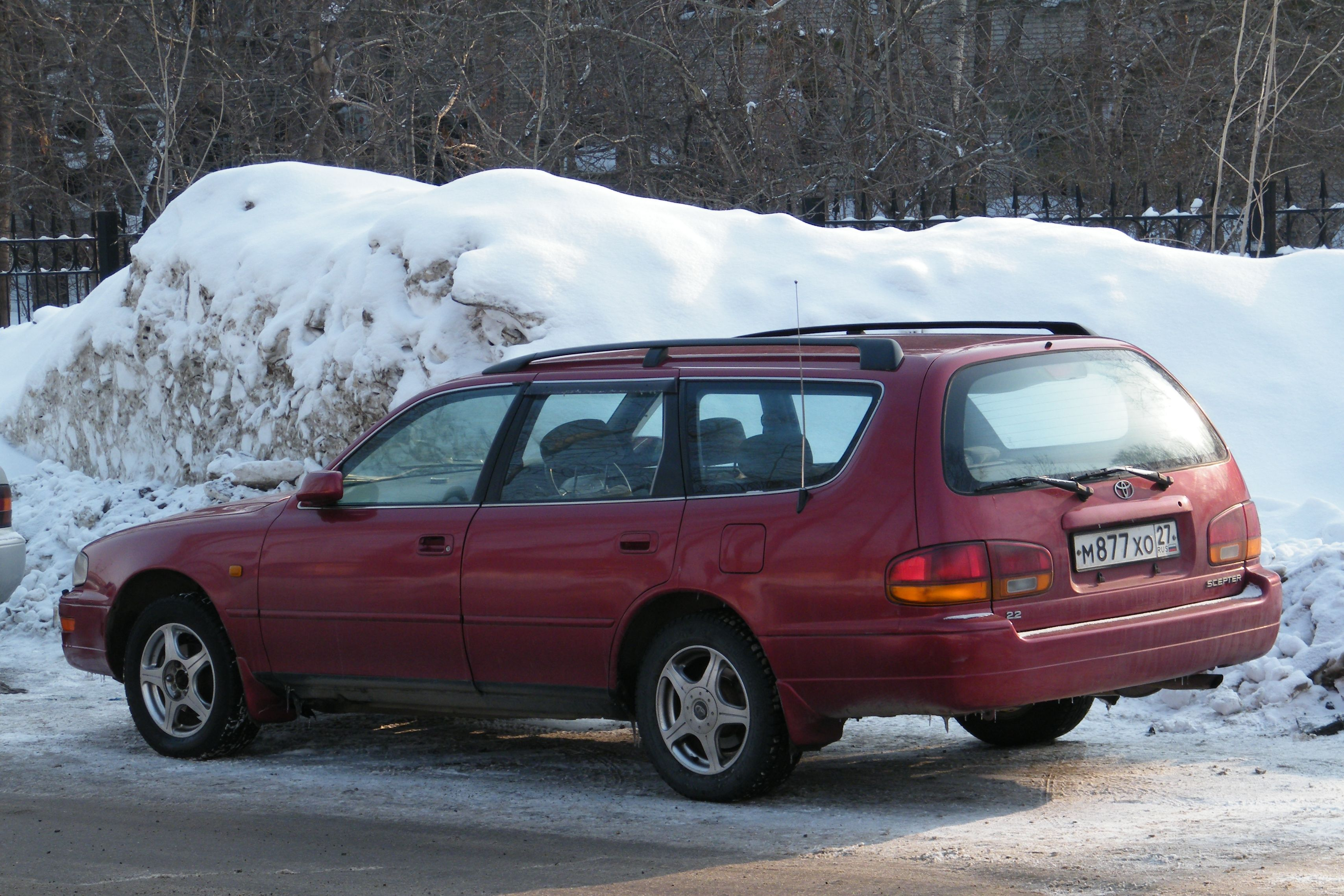 Toyota Scepter